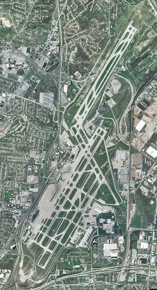 Lambert field from the air original tiled images stitched together and saved at web resolution by myself